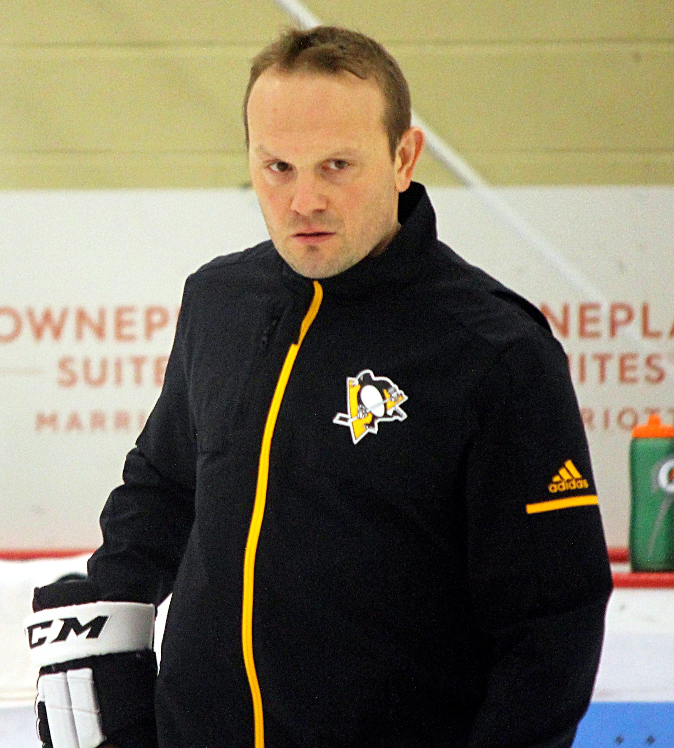 Pittsburgh Penguins assistant coach Sergei Gonchar during practice at UPMC Lemieux Sports Complex in Cranberry Twnshp, PA. Friday, March 2, 2018.